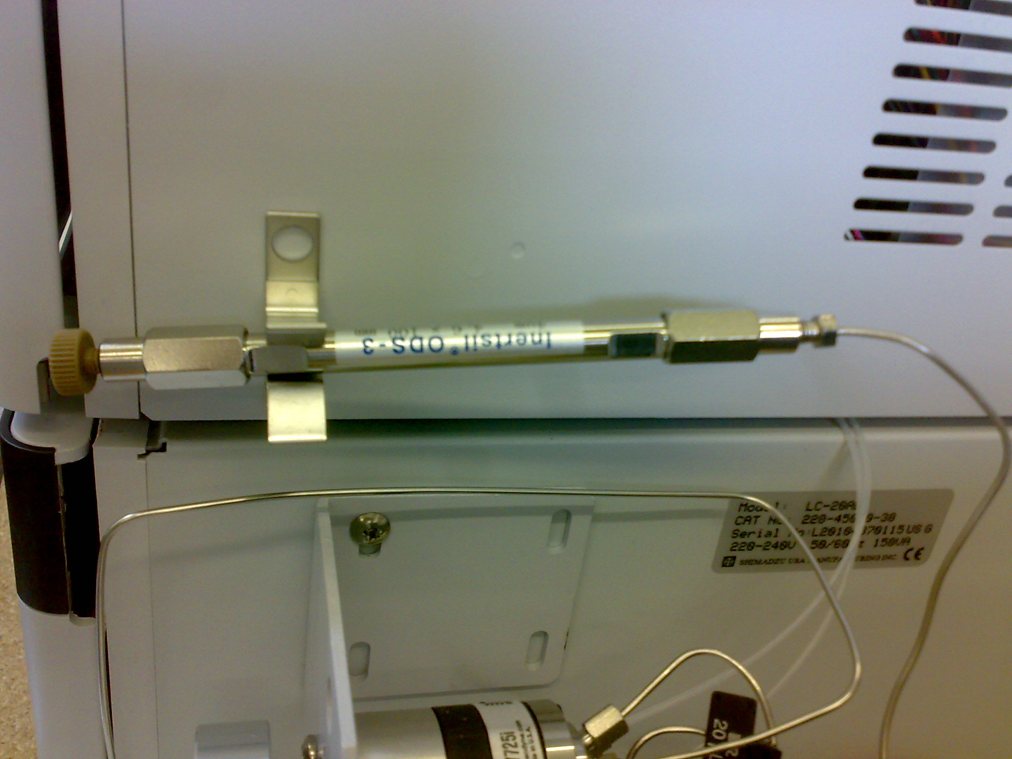 hplc column